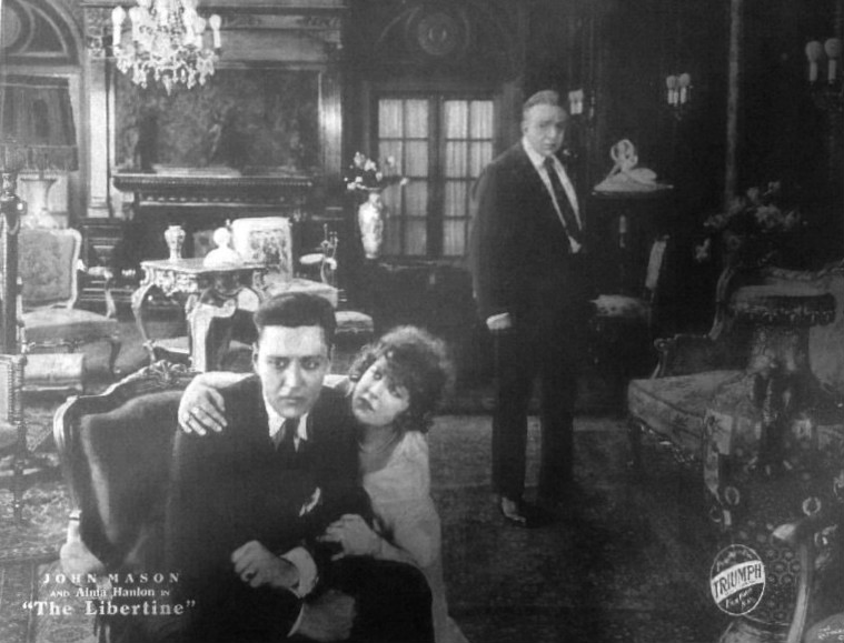 Lobby card for the American drama film The Libertine (1916).